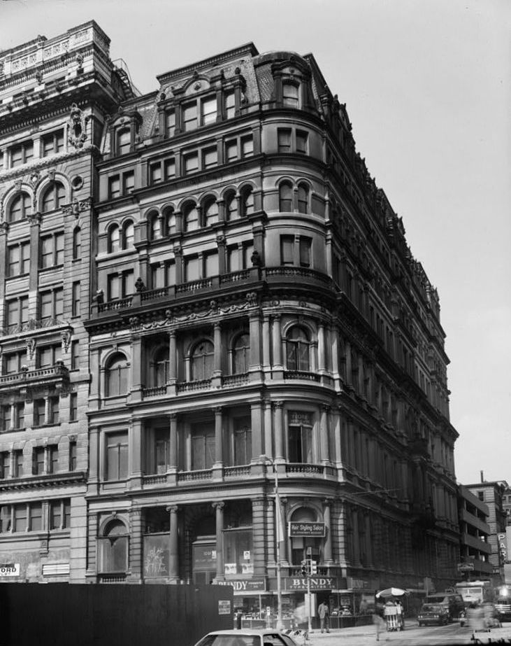 New York Mutual Life Insurance Company Building (AKA Victory Building), 1001-05 Chestnut Street, Philadelphia, Pennsylvania (1873-75), Henry Fernbach, architect.